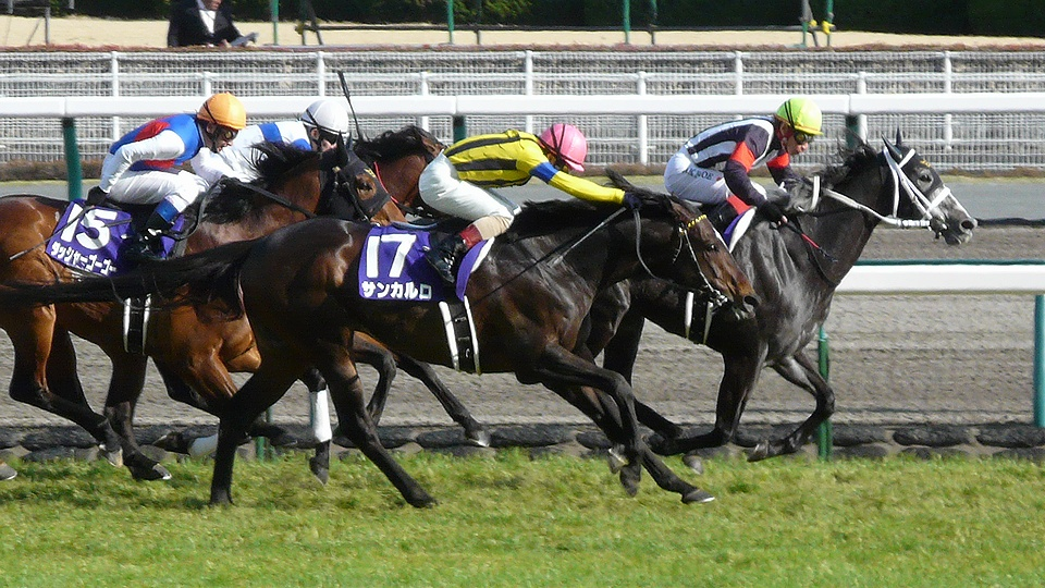 Curren-Chan20120325(1)